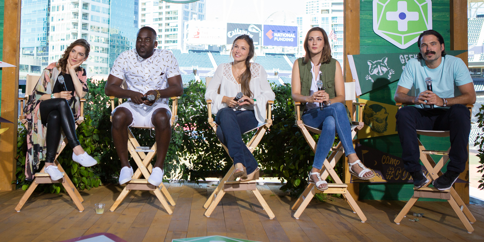 The cast from Wynnona Earp television show at the celebrity panel for 2016 Camp Conival in San Diego, California, USA. From left: Melanie Scrofano, Shamier Anderson, Dominique Provost-Chalkley, Katherine Barrell and Tim Rozon.